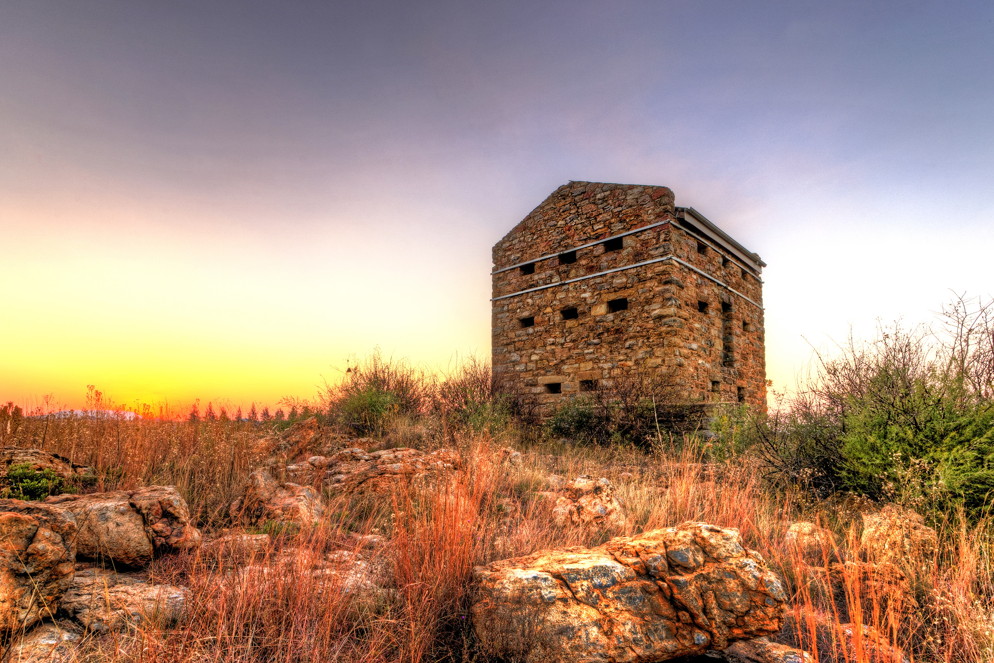 This media shows a South African Protected Site with SAHRA file reference 9/2/277/0007.